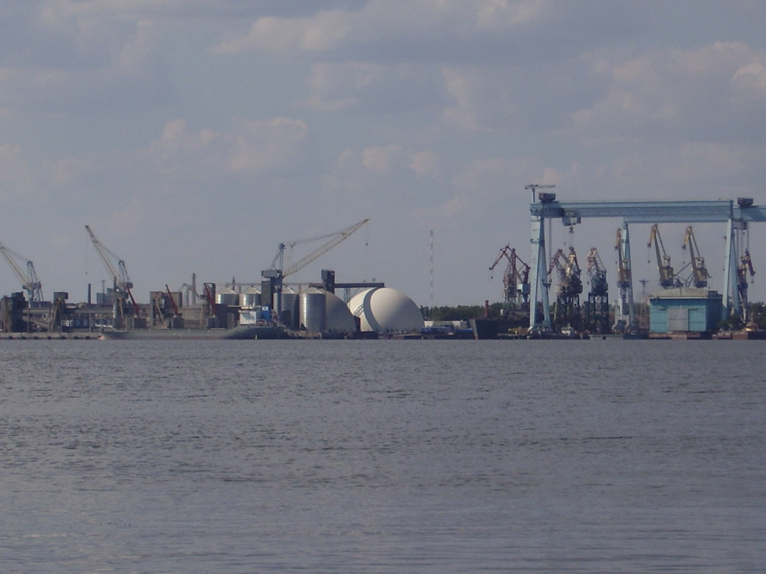 Left - Repositories of Nybulon, Righd - 800-tonns crane of Black Sea Shipyard. View from Battery Island, Mykolaiv